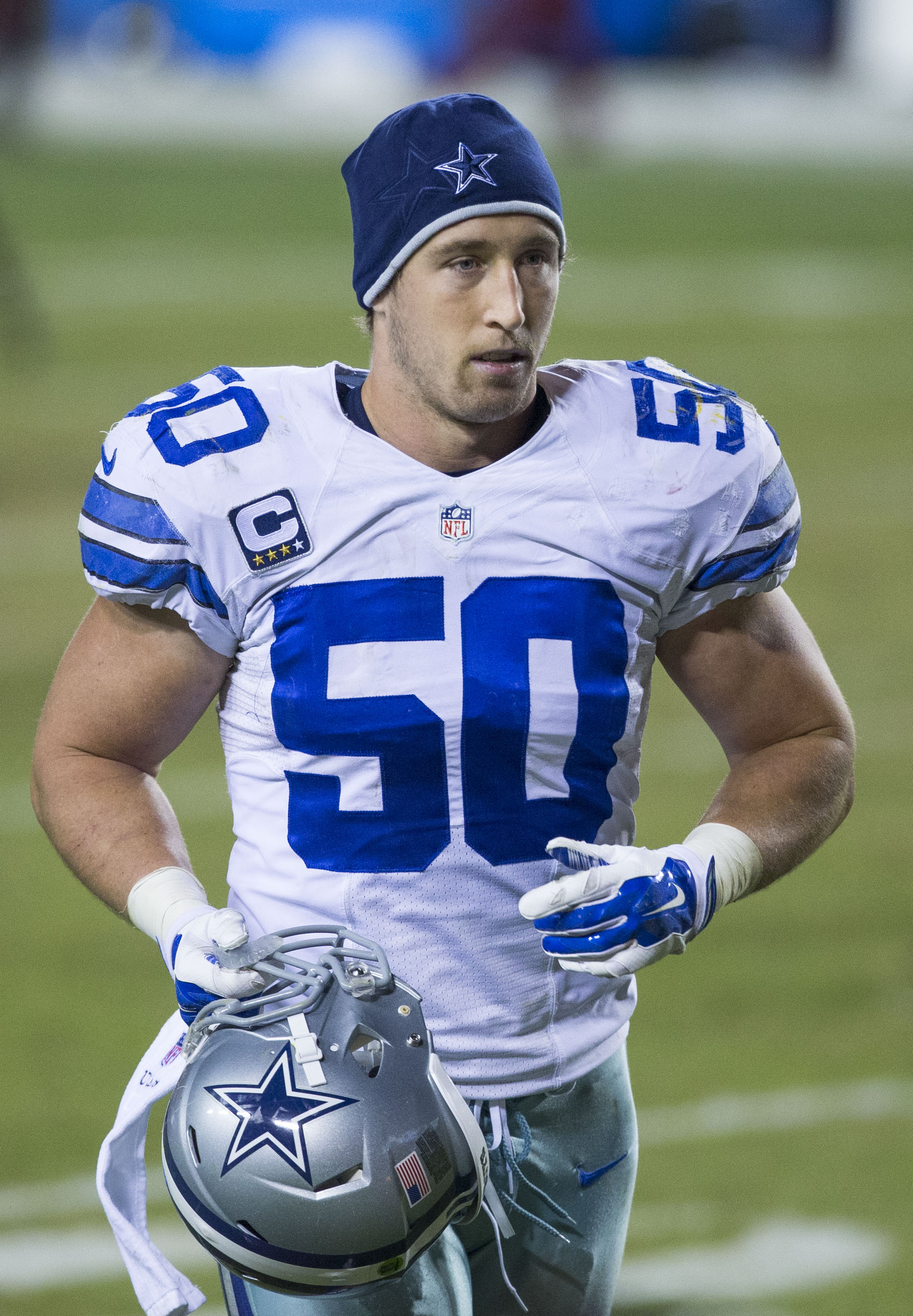 Dallas Cowboys linebacker, Sean Lee, playing against the the Washington Redskins on December 7, 2015.